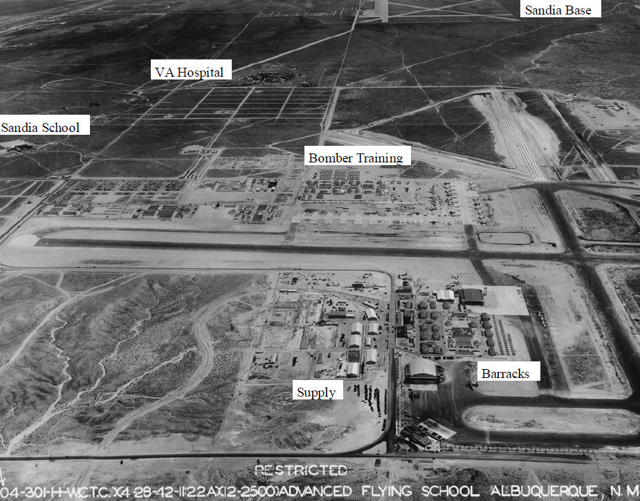 Aerial photograph of Albuquerque Army Air Base (now Kirtland Air Force Base). Labeled are the bomber training, Sandia Base, Sandia School, and VA Hospital.